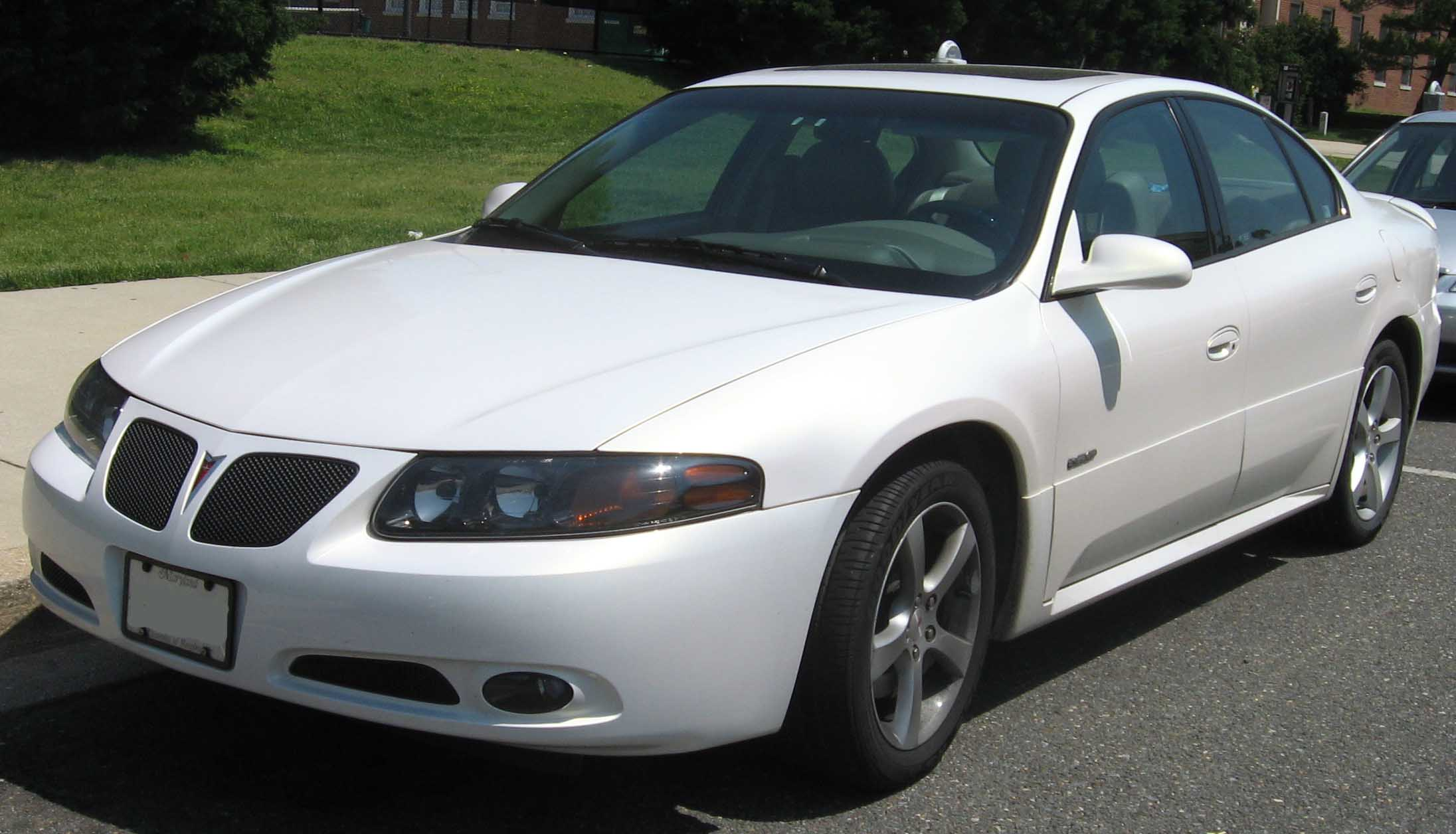 2004-2005 Pontiac Bonneville photographed in College Park, Maryland, USA.